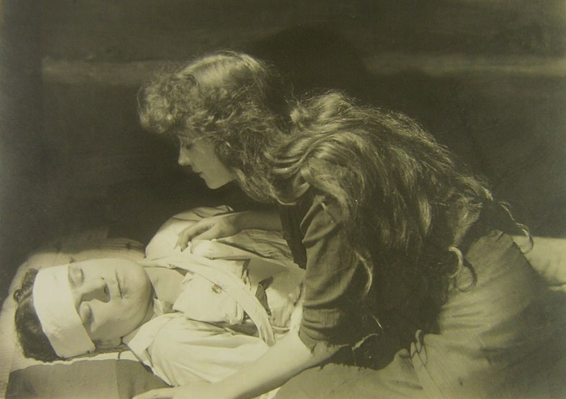 Thomas Meighan and Charlotte Walker in The Trail of the Lonesome Pine (1916) - original image cropped (see source)